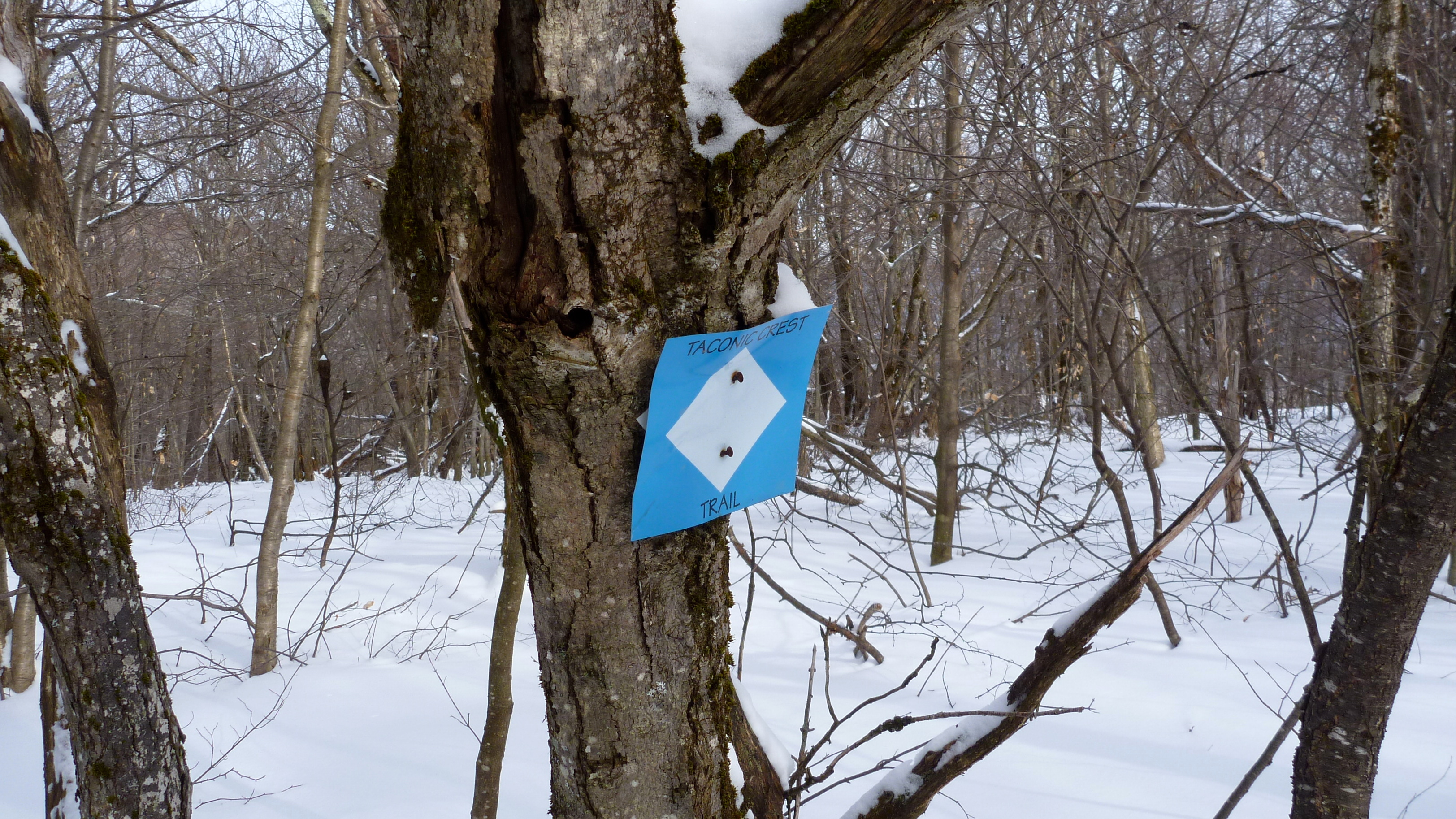 This is one of the colorful trail markers seen along the Taconic Crest Trail on the way to Berlin Mountain in New York.